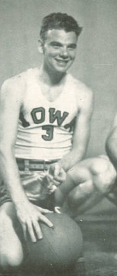 University of Iowa basketball player Murray Wier in 1947